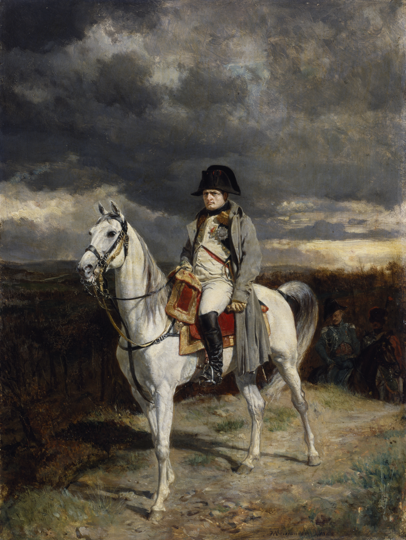 After accompanying the French army in the Austro-Italian War of 1859, Meissionier abandoned the small, Dutch 17th-century genre subjects for which he had become known and turned with even greater success to depicting events in the career of Napoleon I. In this small painting commissioned by the subject's nephew, Prince Napoleon, the emperor is portrayed in a forbidding landscape just after his last, hard-won victory in the 1814 French campaign that was fought at Arcis-sur-Aube, near Troyes: 23,000 French troops withstood the onslaught of 90,000 Austrians, but were unable to capitalize on their victory.